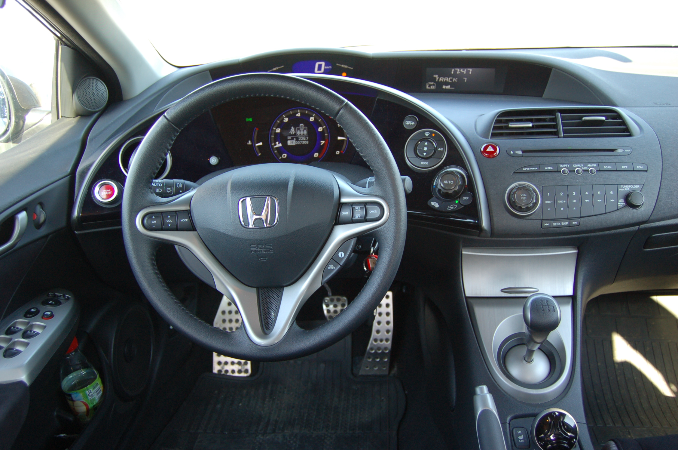 Attribution: Ingus Bukšs, bukss.lv